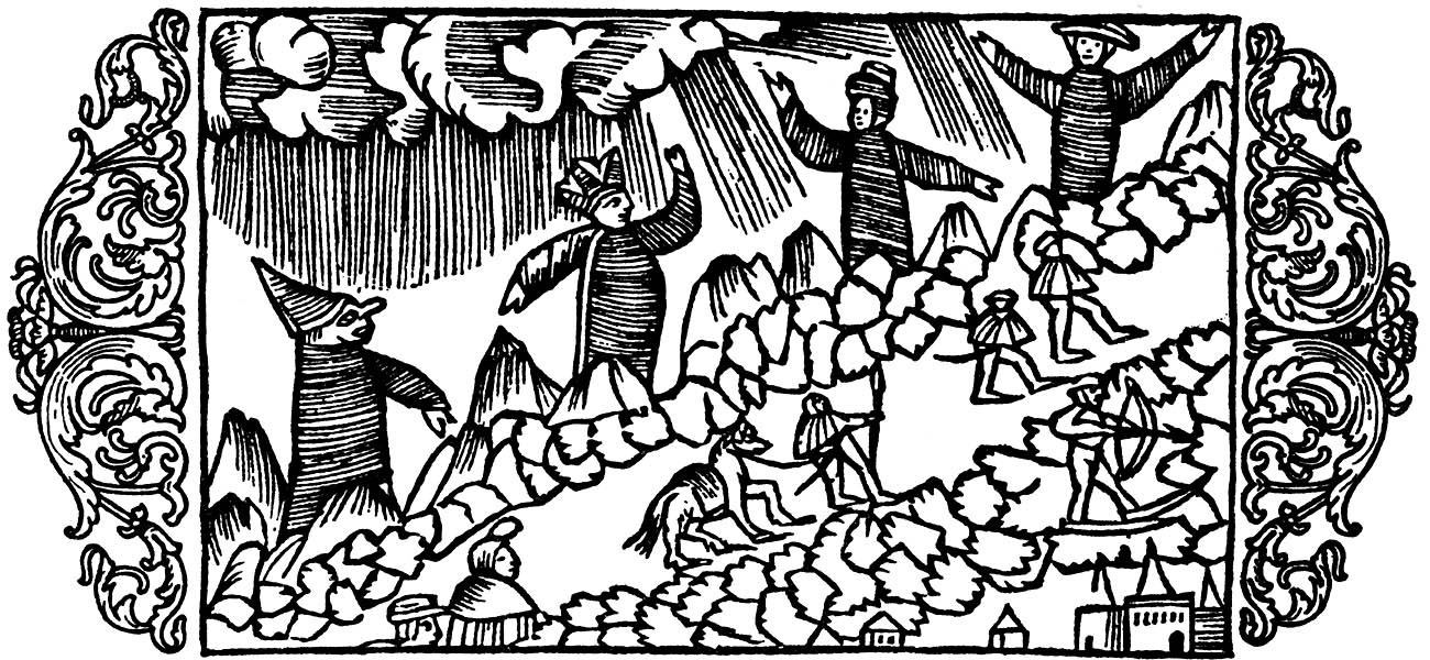 We see the pilgrim route between Nidaros (Trondheim) in Norway and Jämtland in Sweden. High stone statues, donated by ancient pious Norwegian kings, are raised along the route. At bottom left a monk. In the middle a man armed with a sword and spear leads a packhorse. To the right a man, probably a Lap, on skis and with bow and arrow.